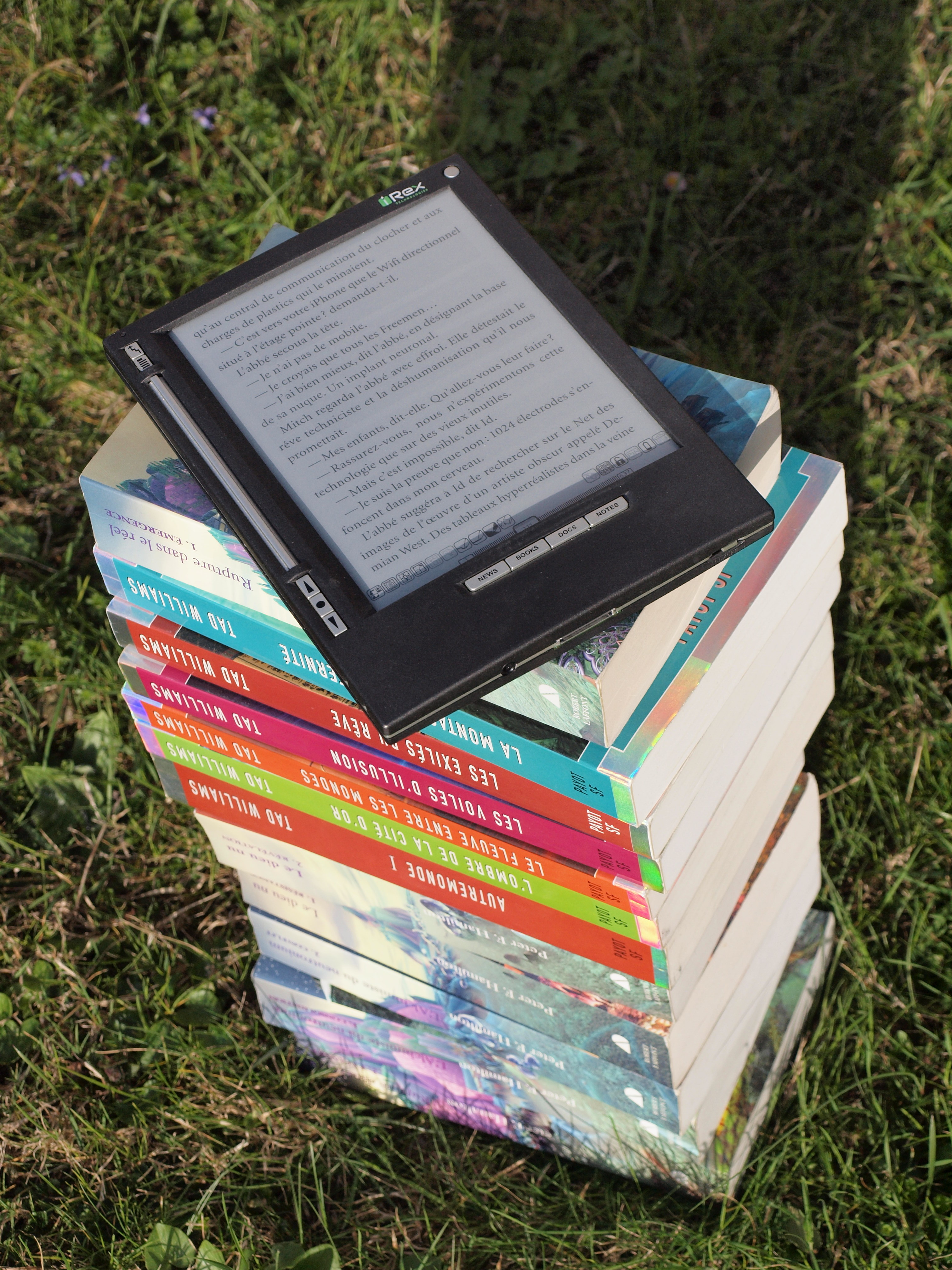 IRex iLiad ebook reader outdoors in sunlight. Stack of books. Electronic paper. Electrophoretic display.